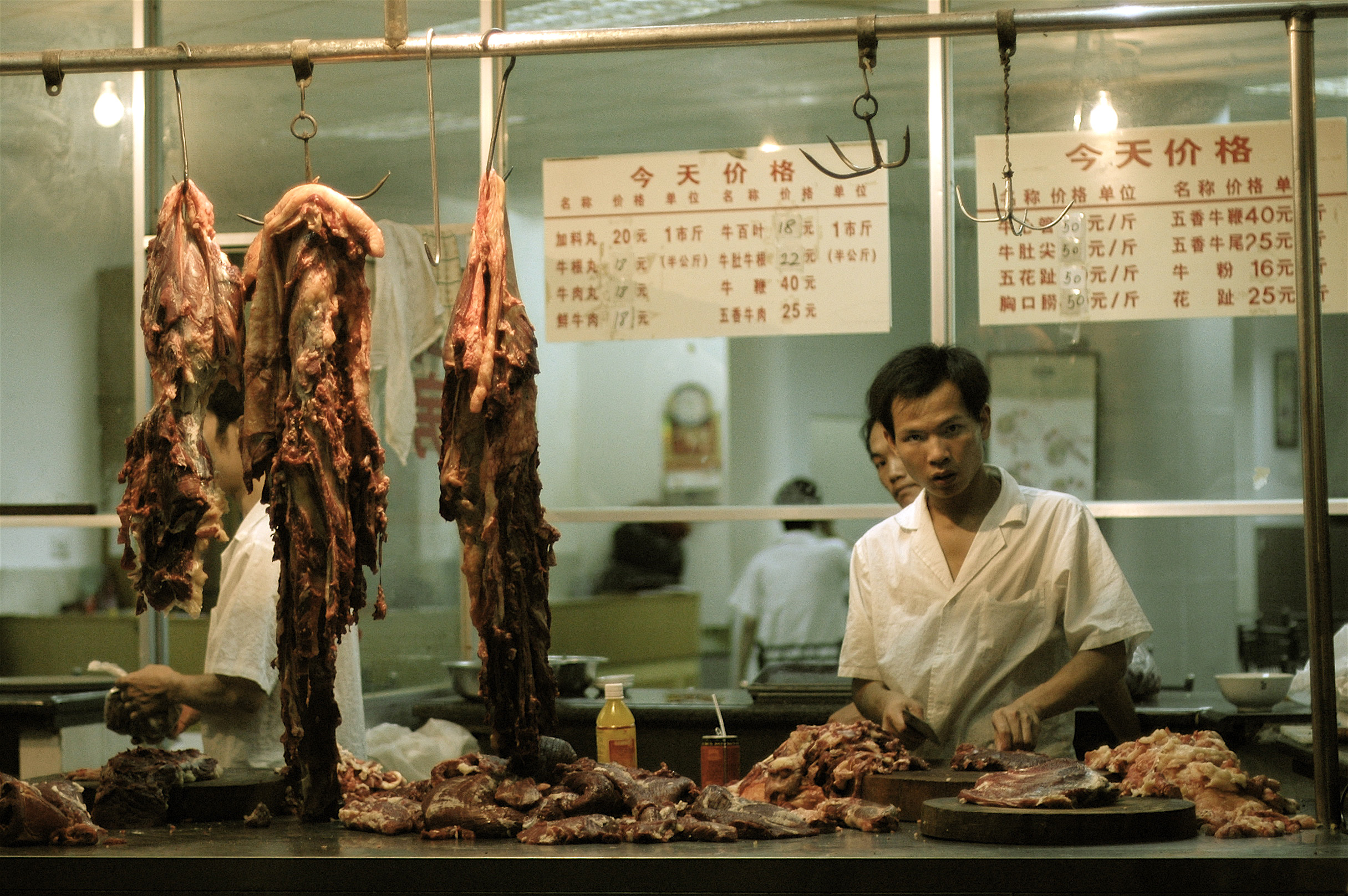 A butcher in Meizhou, China.